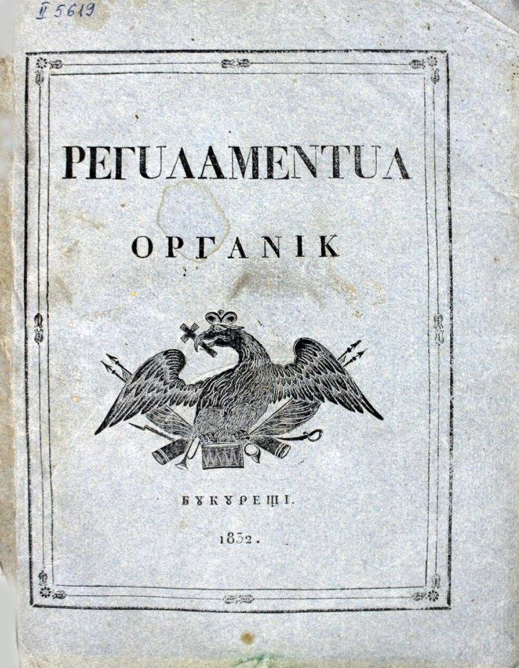 Regulamentul organic, cleaned-up with Photoshop